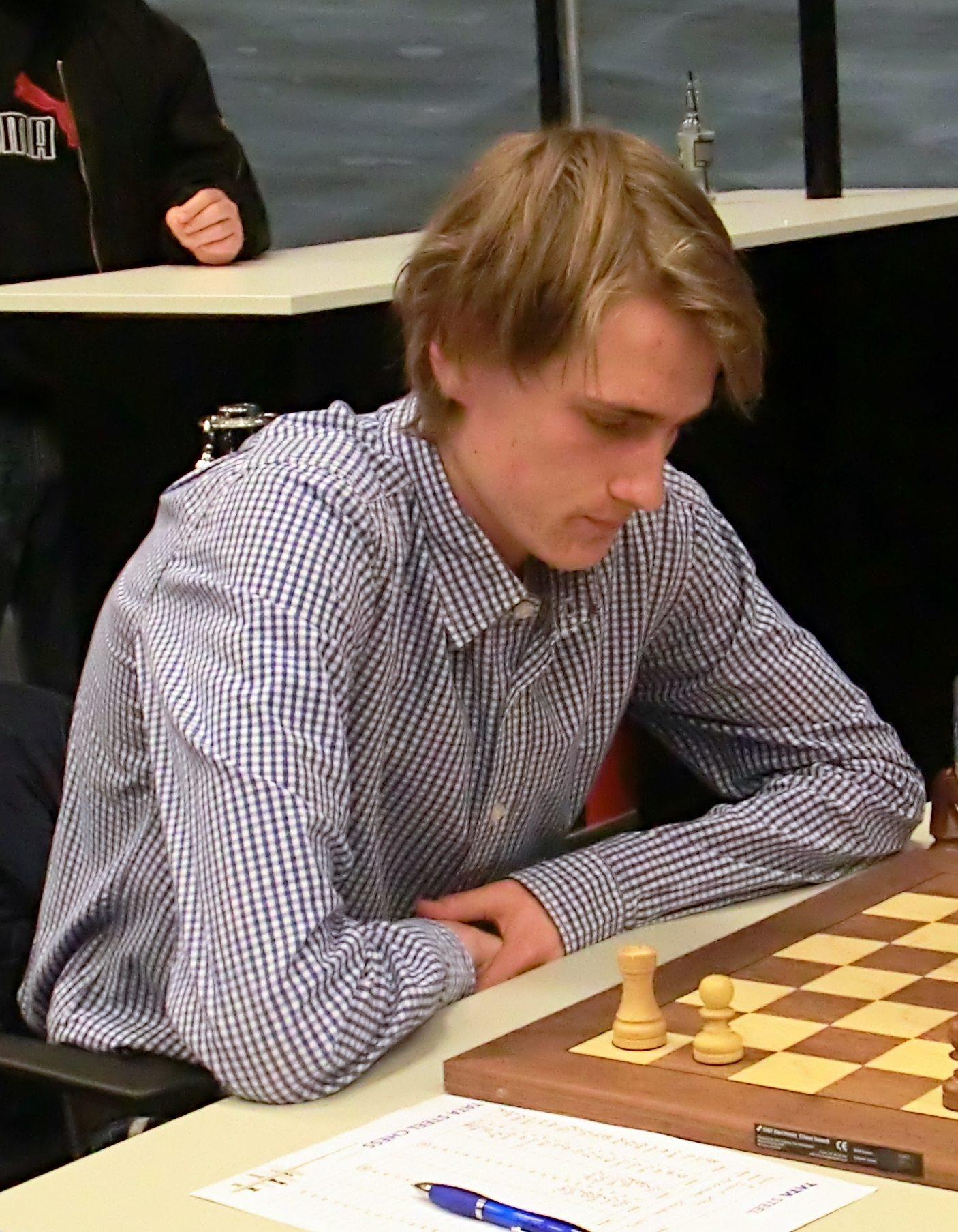 David Klein, chess player from the Netherlands